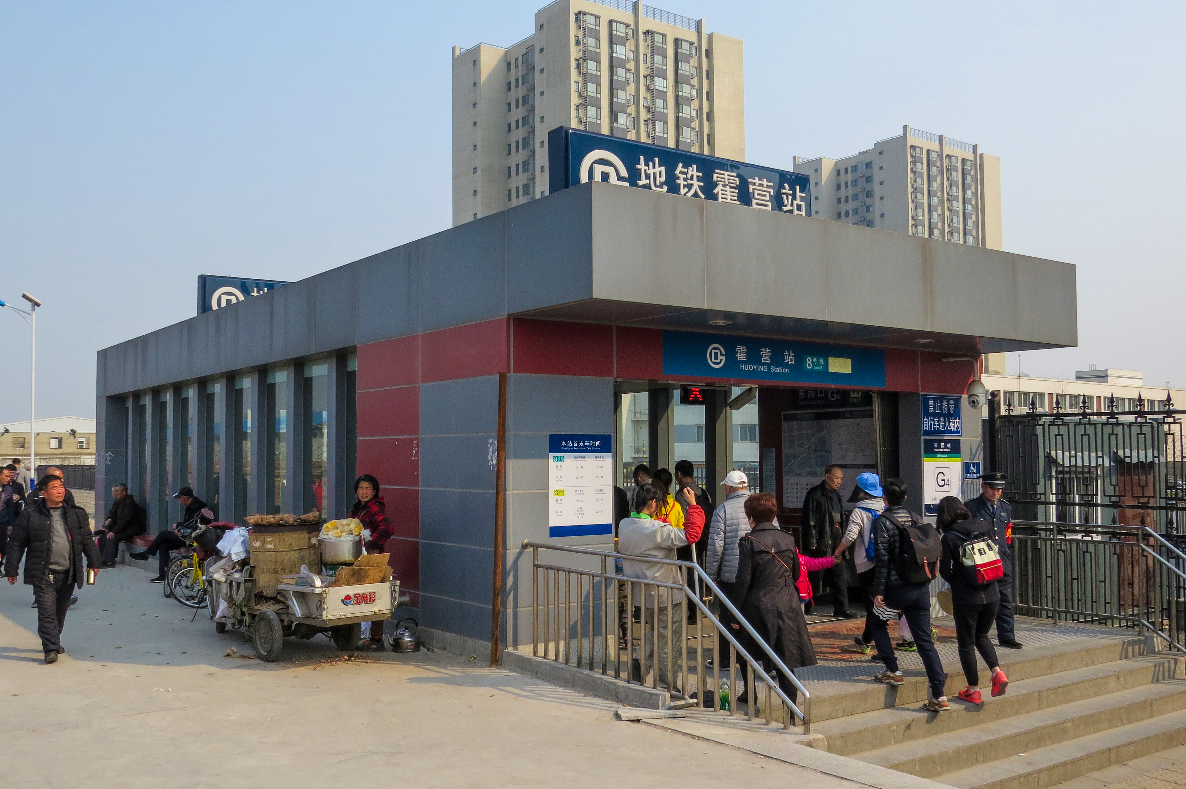 Now, it's the new gateway to Badaling Great Wall.